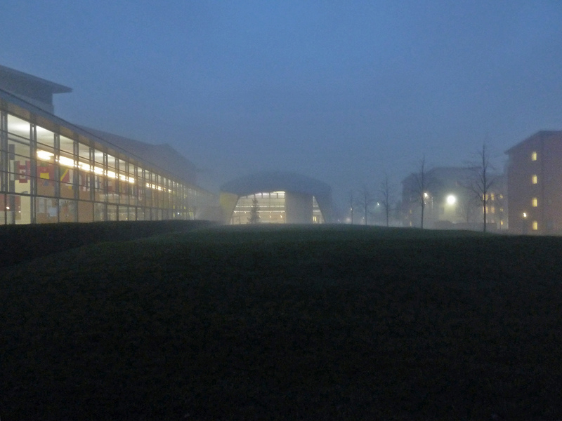 University of Hertfordshire, de Havilland Campus, Conecrt Hall and Learning Recources Centre